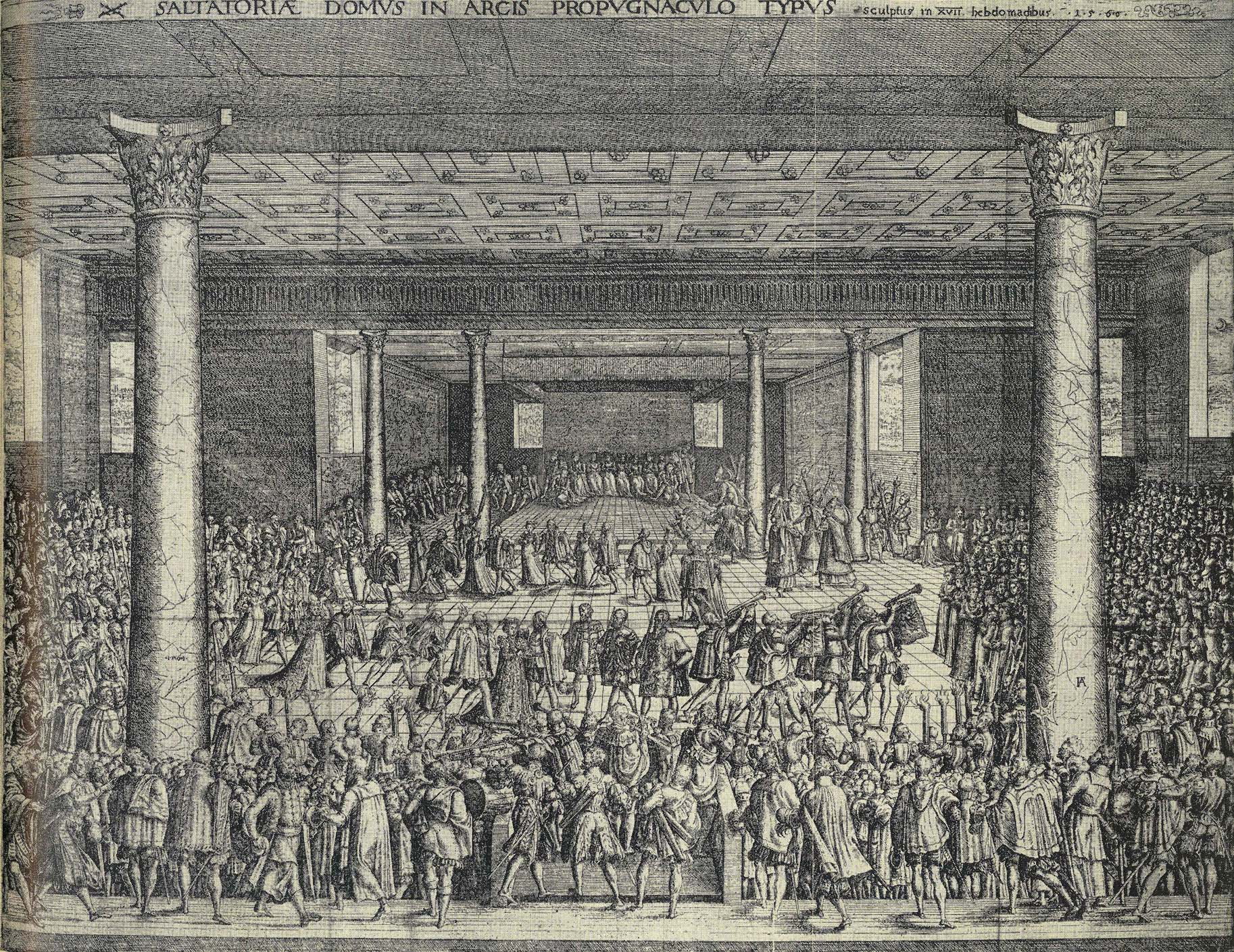 The royal party of Hungarian aristocrats in Vienna (1560)